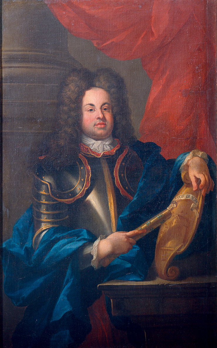 Portrait of Antonio Farnese, Duke of Parma (1679-1731)